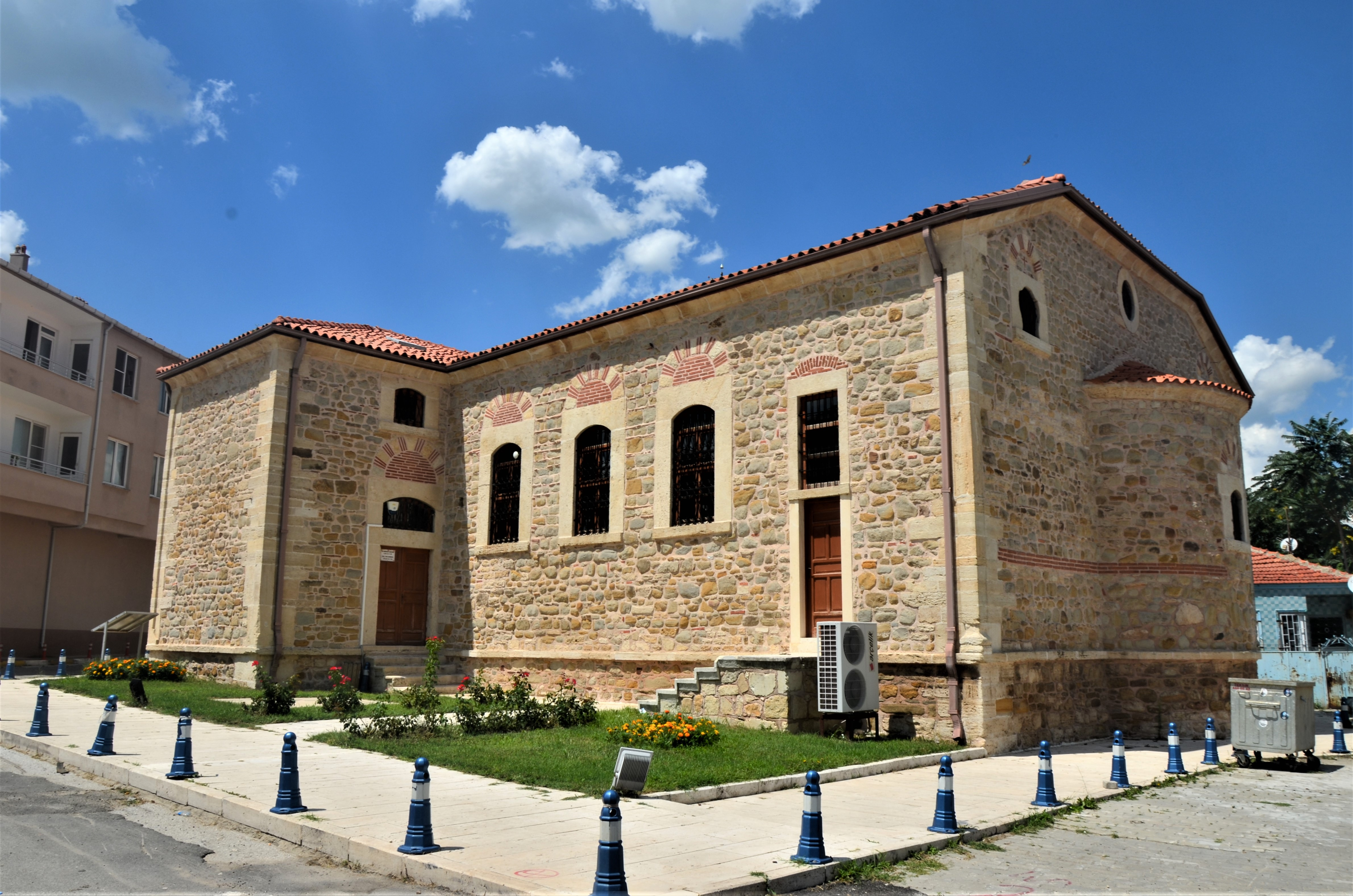 Church of Saint John the Baptist (Aziz Ioannis Kilisesi) in Uzunköprü, Edirne Province, Turkey